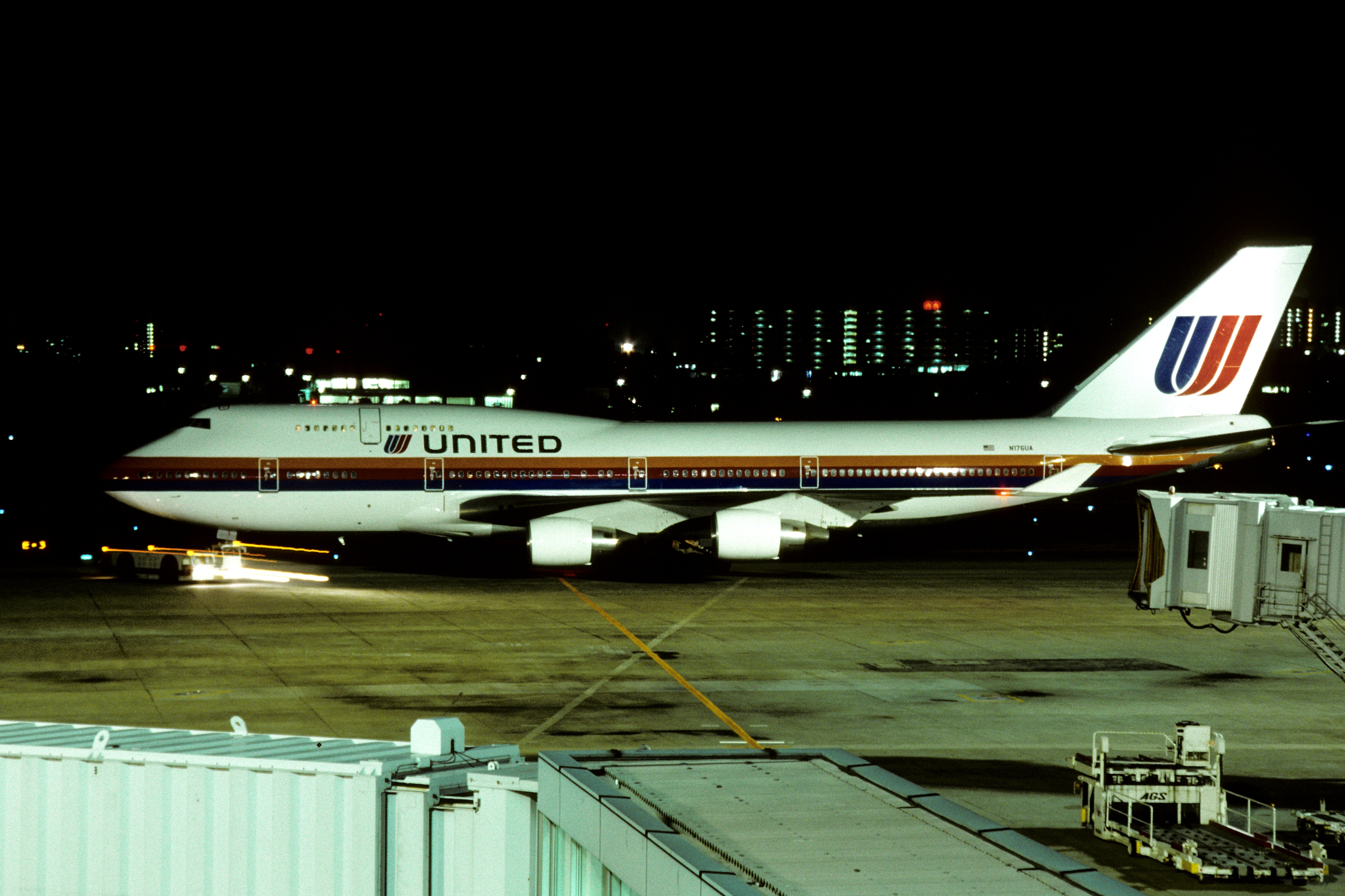 Old Pictures